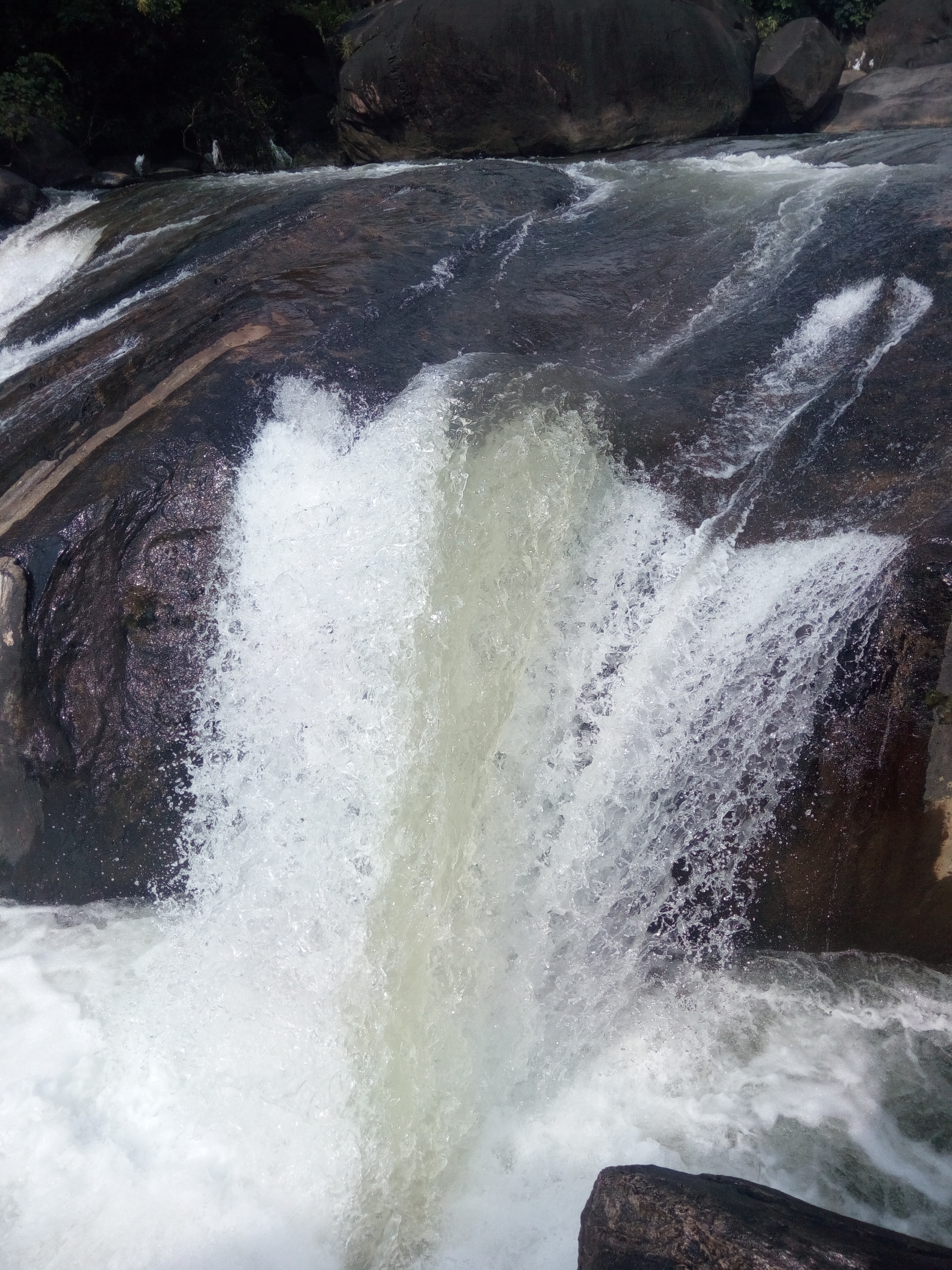 Arippara waterfalls is near anallampoyil, kozhikkod district in Kerala, India. It is easy to reach there.